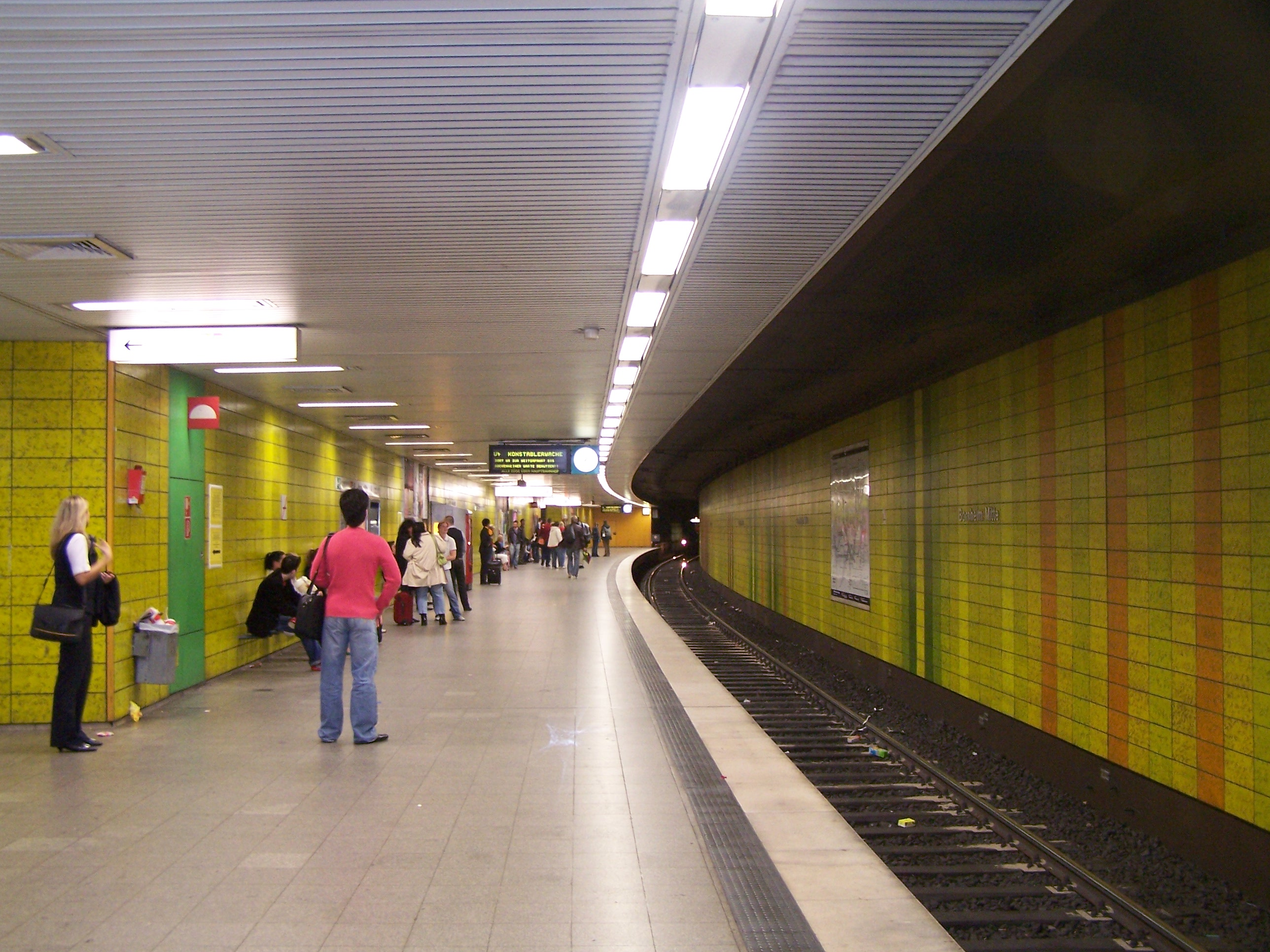 Bornheim Mitte subway station in Frankfurt am Main, Germany